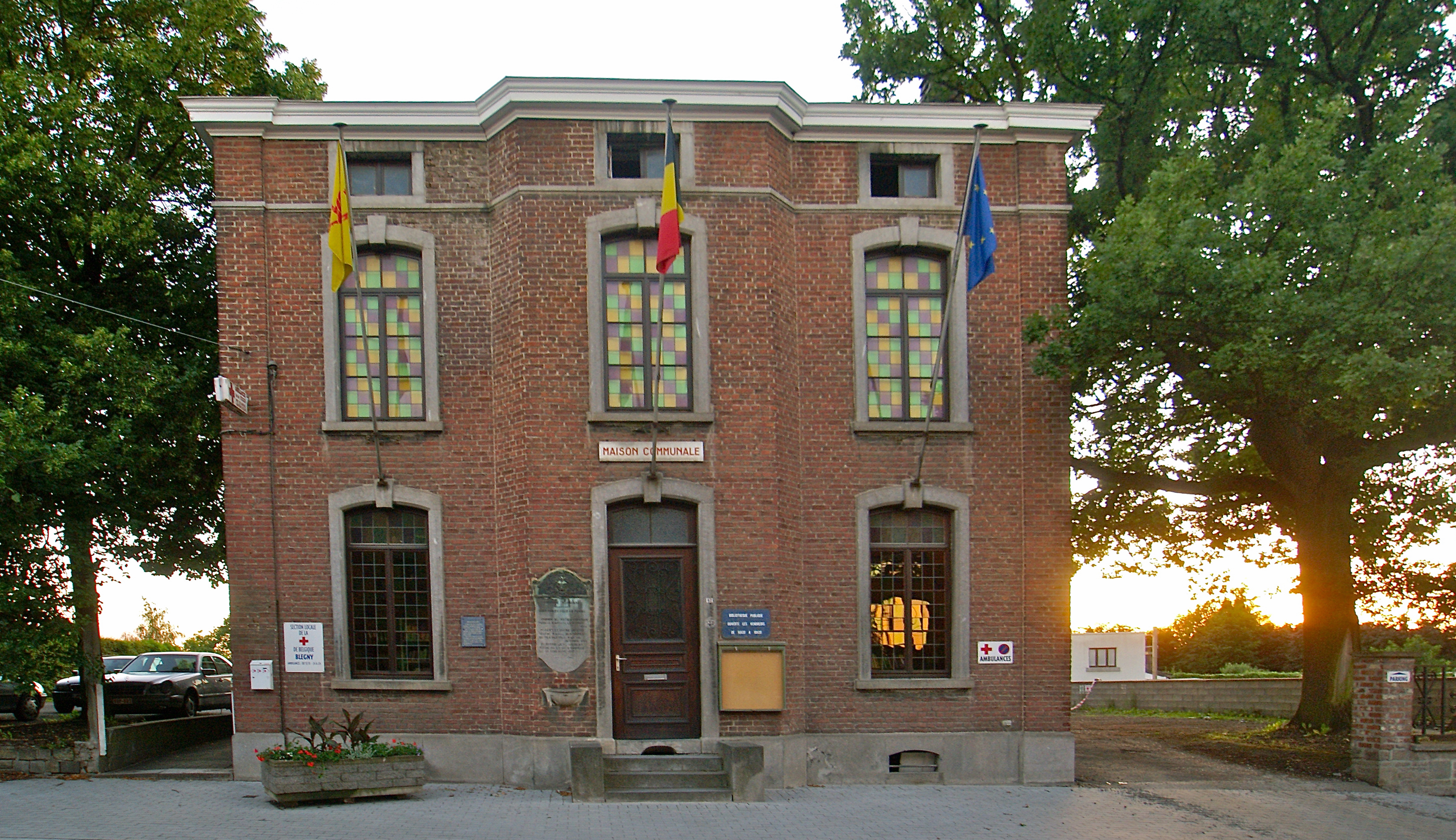 Blegny (Housse), Belgium: Former town hall